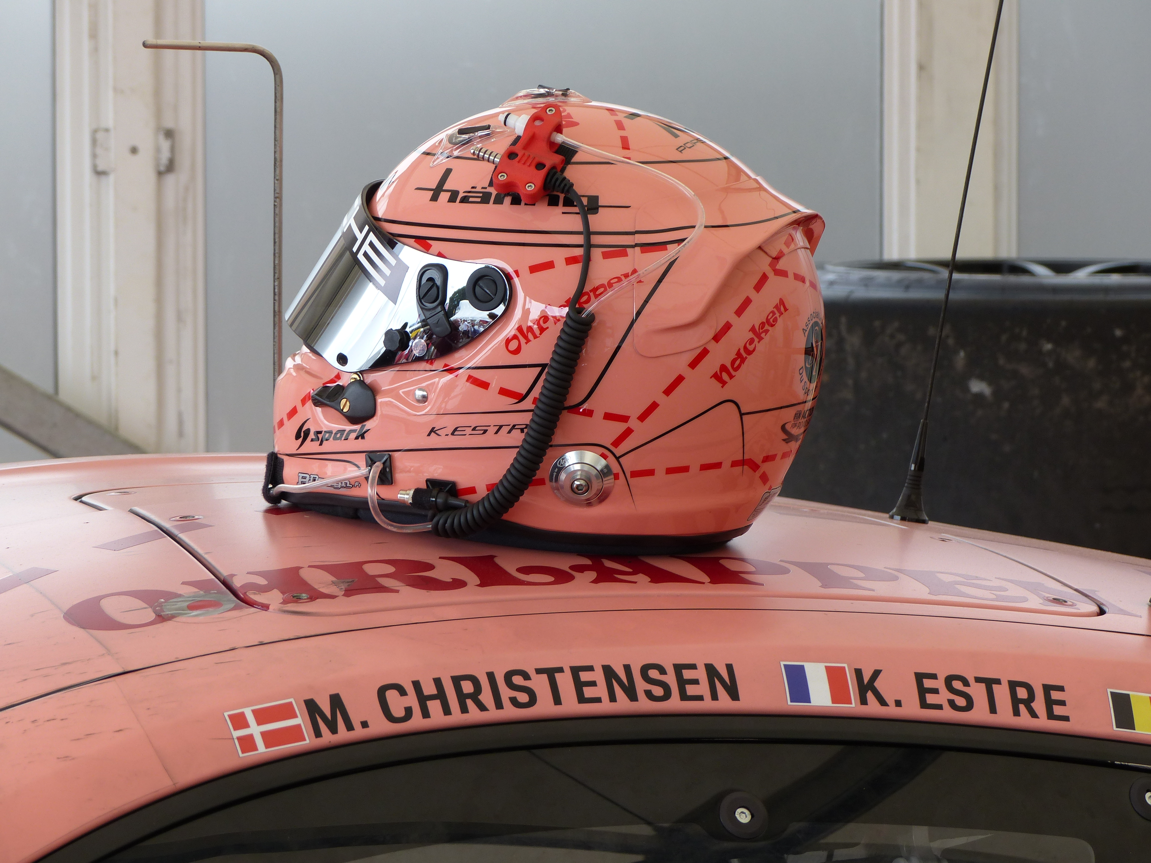 Kévin Estre painted his helmet in the same colours as the Porsche he drove at the 2018 Le Mans 24 hours. The car was in turn painted in honour of the Pink Pig, which raced at the Le Mans race 35 years earlier, and which had a similar porcine hue.